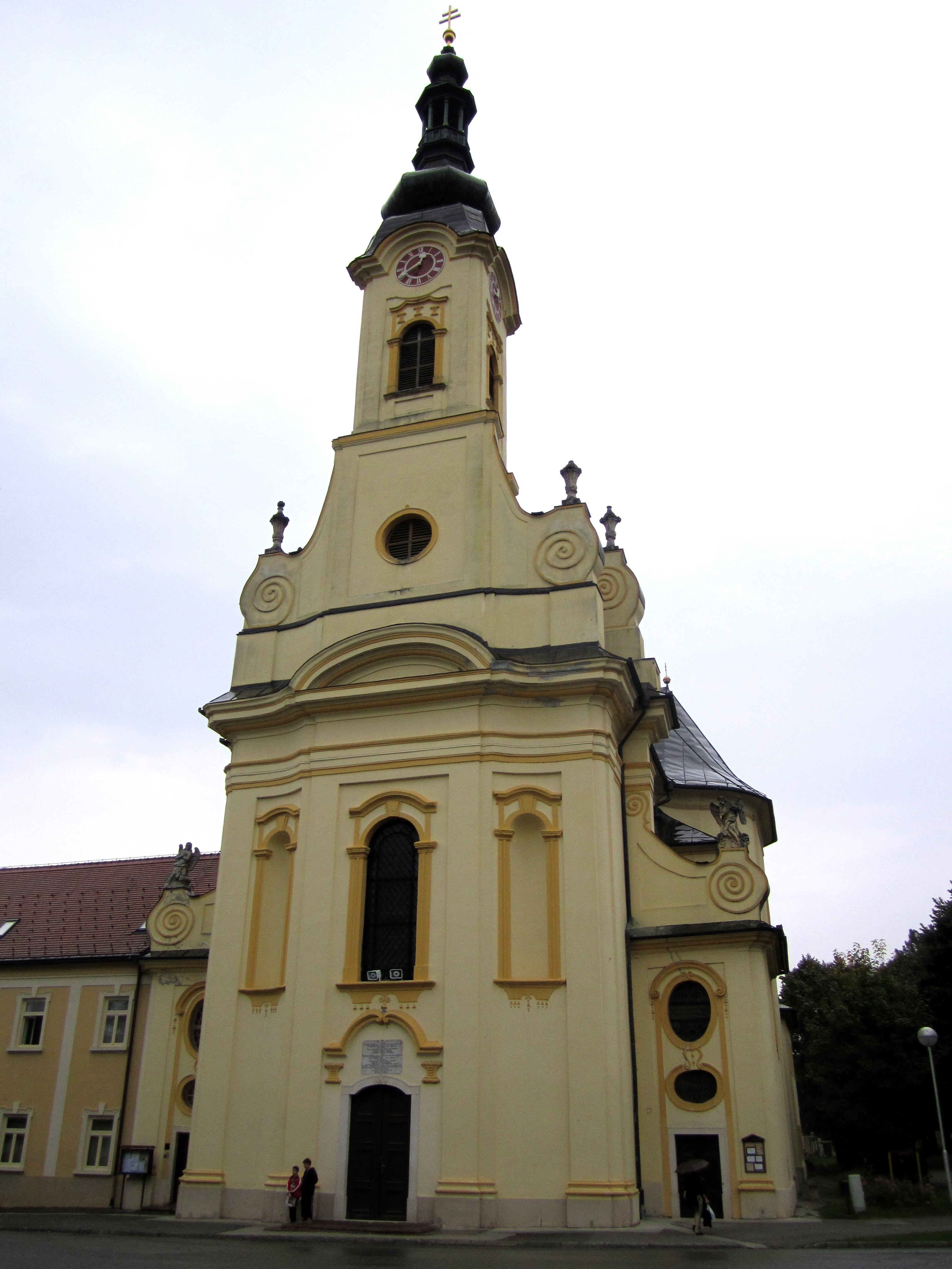 Cathedral of Saint Tereza de Avila, Pozega